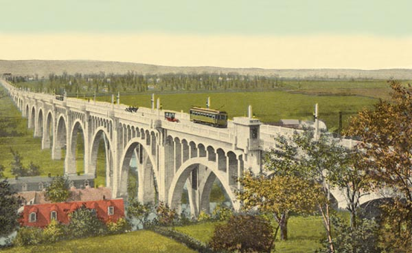 Postcard. Eighth Street Bridge in Allentown, Pennsylvania, USA. Dated 1916. {PD-US}